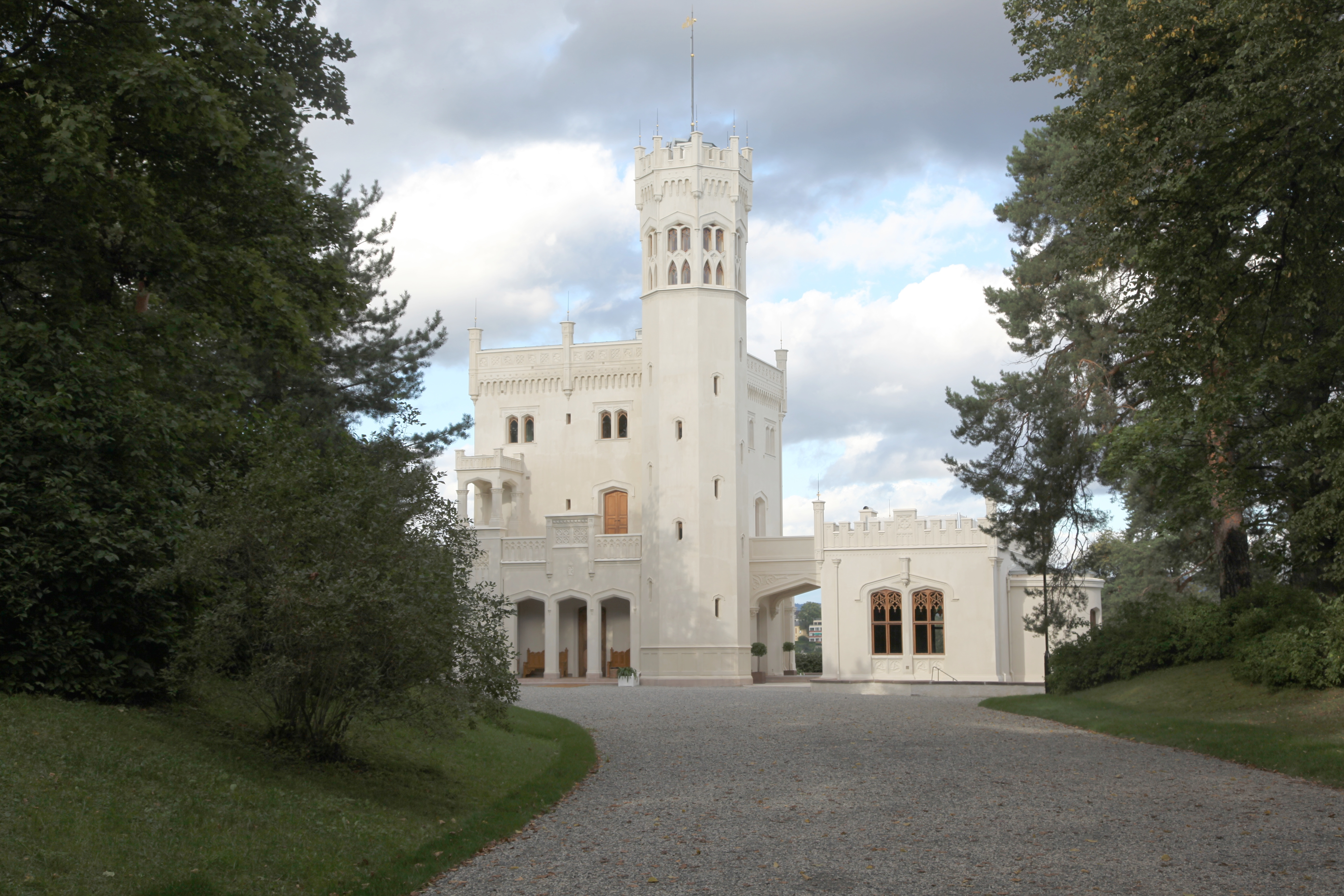 Oscarshall castle in Oslo. Newly restored using original white colour